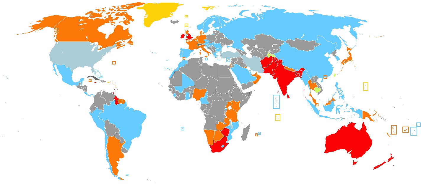 Map of the current members of the International Cricket Council (ICC) and its subordinate regional bodies. The members are coloured thus: Red: full members (e.g. Australia) Orange: associate members (e.g. United States) Gold: dependent territories of associate members (not ICC members in their own right) (e.g. Greenland) Blue: affiliate members (e.g. China) Blue Grey: suspended members (e.g. Iran) Green: associate members of the ICC subordinate regional body, the w: Asian Cricket Council, which are not yet members of the ICC (e.g. Cambodia) Dark grey: former members (e.g. Cuba) Grey: non-members (e.g. Chad) Note: Certain island nations may not be shown. Based off File:BlankMap-World-2007.png updated to include South Sudan.